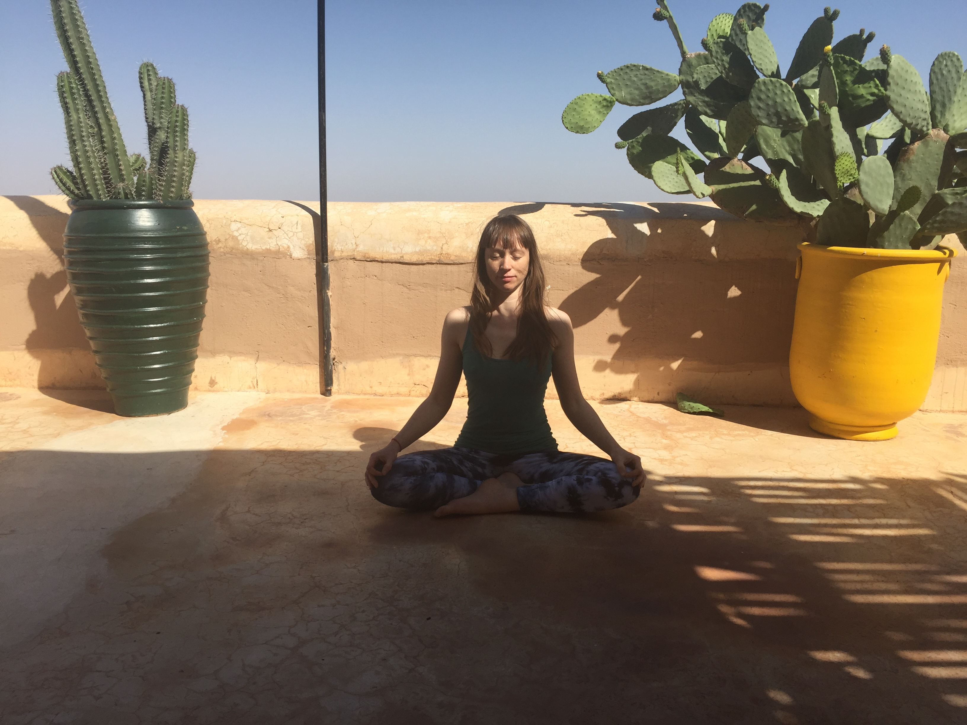 Khadine practicing siddhasana near some cacti